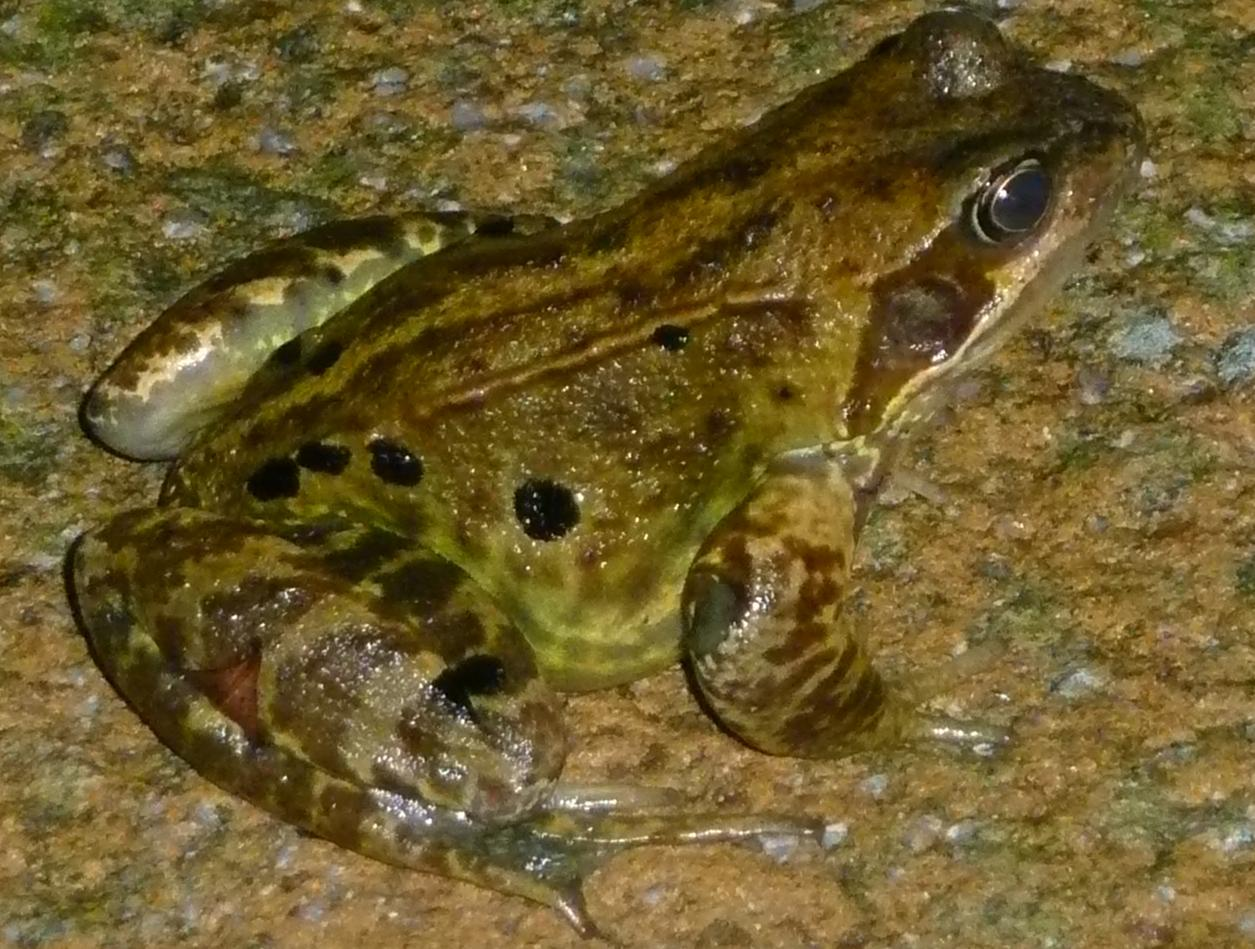 Common frog at night on garden wall, Harlow, Essex, England